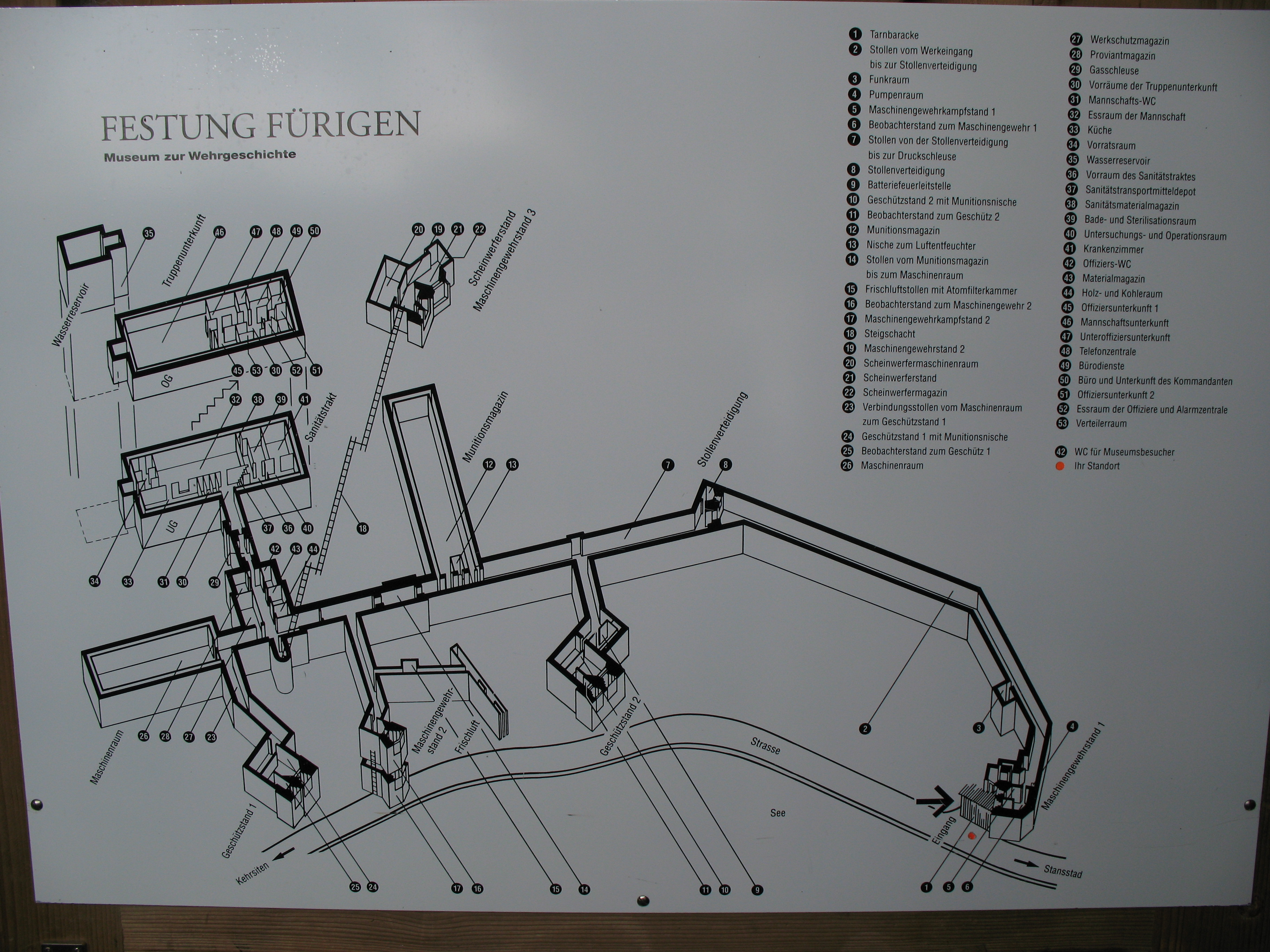 Map to Fort Fürigen, Switzerland